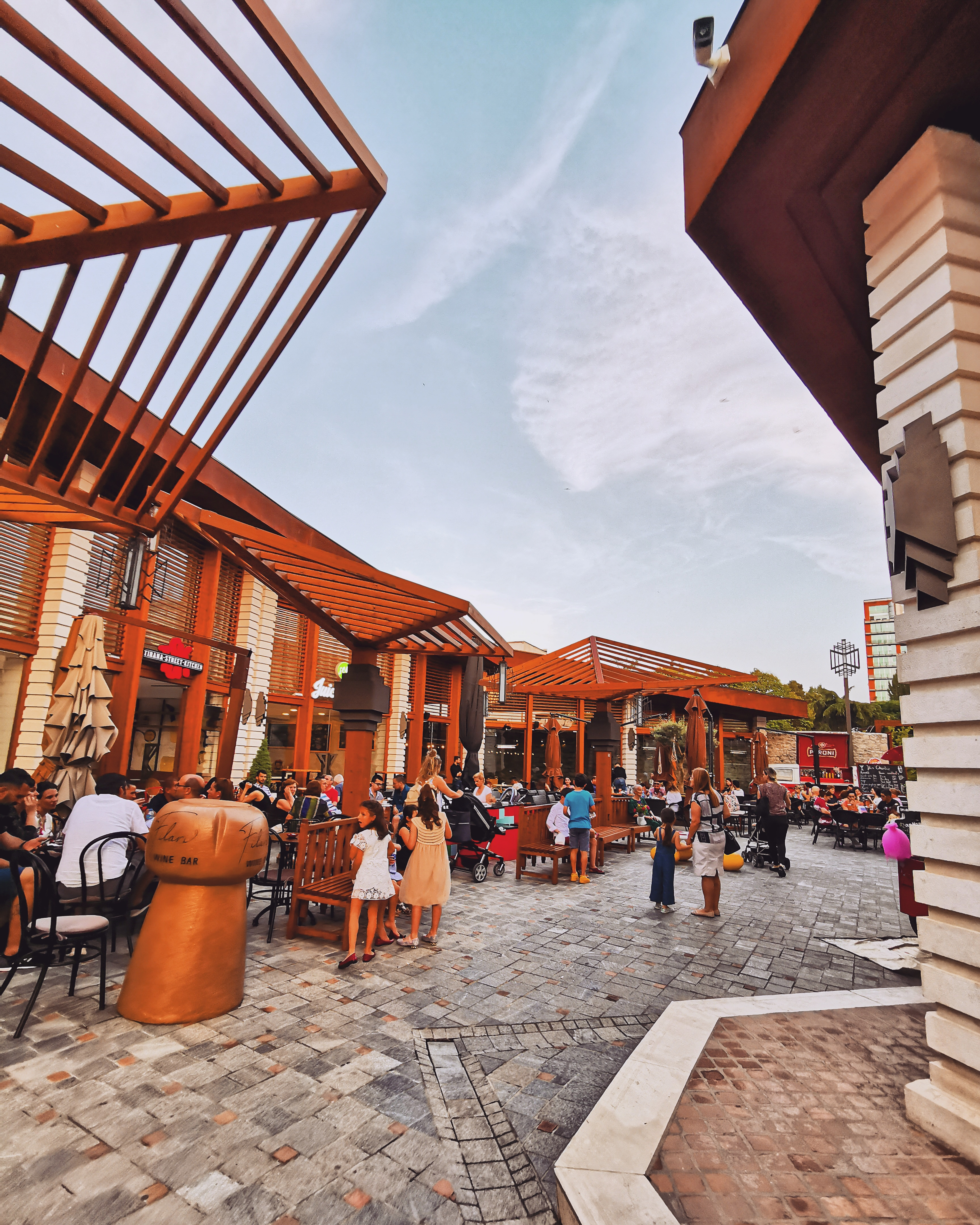 This is the old Castle of Tirana, converted into a small bazaar for visitors. It is full of bars and restaurants and it's style is unique, when you walk through it gives you a feeling like you're walking in another city, completely different from other places of the capital. Also in this shot is captured clearly the daily crowded avtivity and the vivacity of this place.